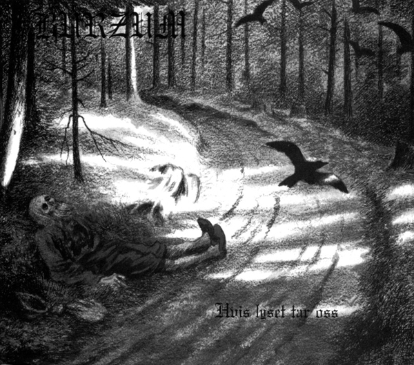 Album cover of a reissue of Hvis lyset tar oss.